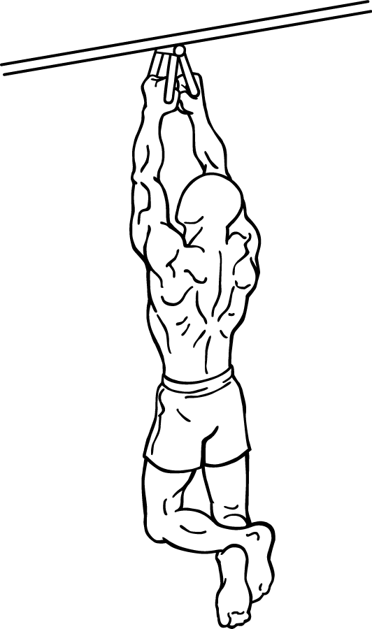 an exercise of upper back